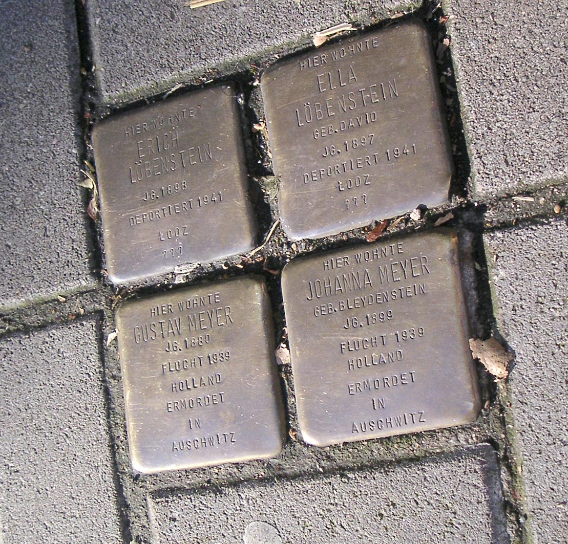 Stolperstein ("stumbling block") in Cologne, Germany, of Artist Gunter Demnig, in memoriam Nazi victims who lived in everybody's neighbourhood. Translation of the text used on the photo: Here lived Erich Löbenstein born 1898 deported 1941 Łódź ??? Here lived Ella Löbenstein maiden name: David born 1897 deported 1941 Łódź ??? Here lived Gustav Meyer born 1880 fled to the Netherlands 1939 murdered in Oświęcim Here lived Johanna Meyer maiden name: Bleydenstein born 1899 fled to the Netherlands 1939 murdered in Oświęcim